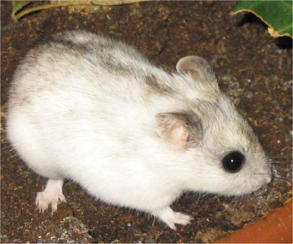 Chinese hamster (Cricetulus griseus), white spotted type